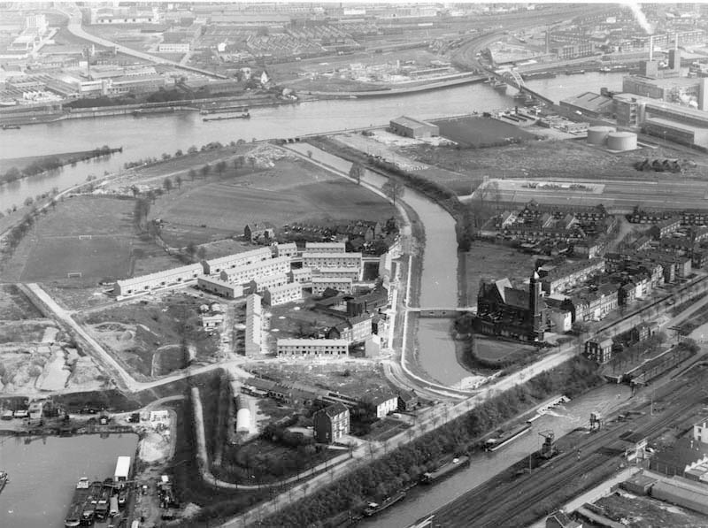 Aerial view of Boschpoort and the river Meuse in Maastricht, Netherlands. Photo collection of RHCL, Maastricht, ref. nr. 6342.